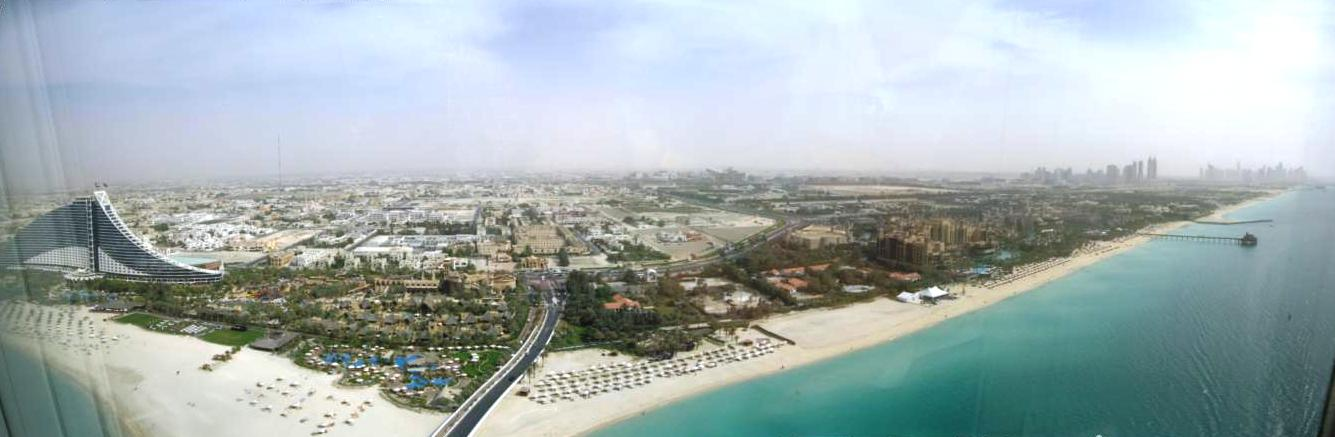 View of Jumeirah from the Burj Al Arab